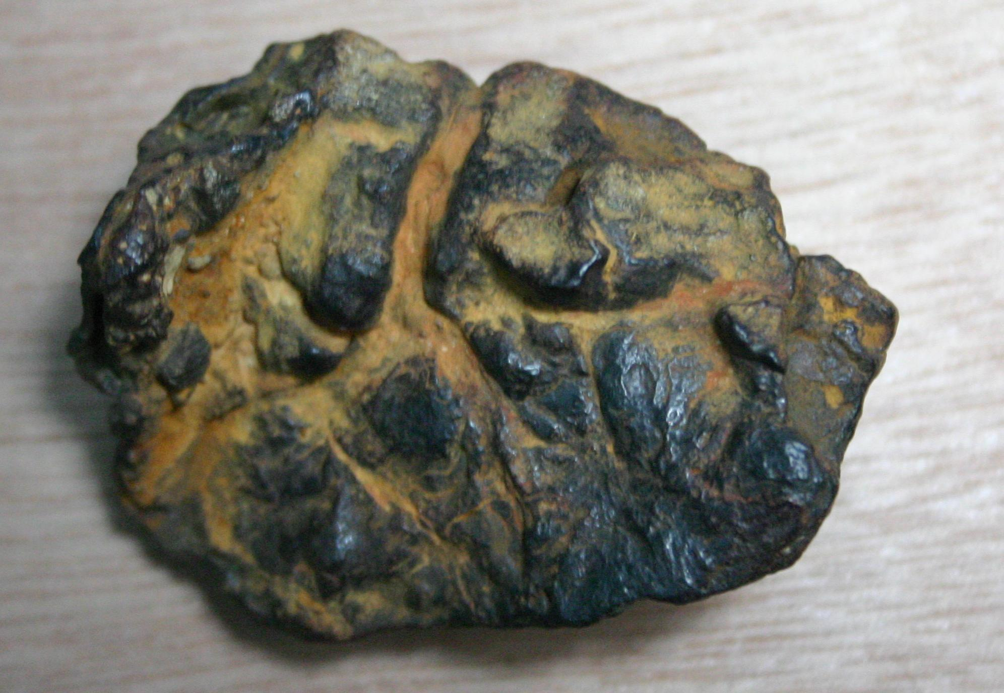 This is a small piece of the Natan meteorite that fell to Earth in China in 1516. The area was dug up in 1959 when local famers were looking from iron ore and found lot of pieces which now have been sold this one cost me £15.00. Note the brown makings which are erosion.